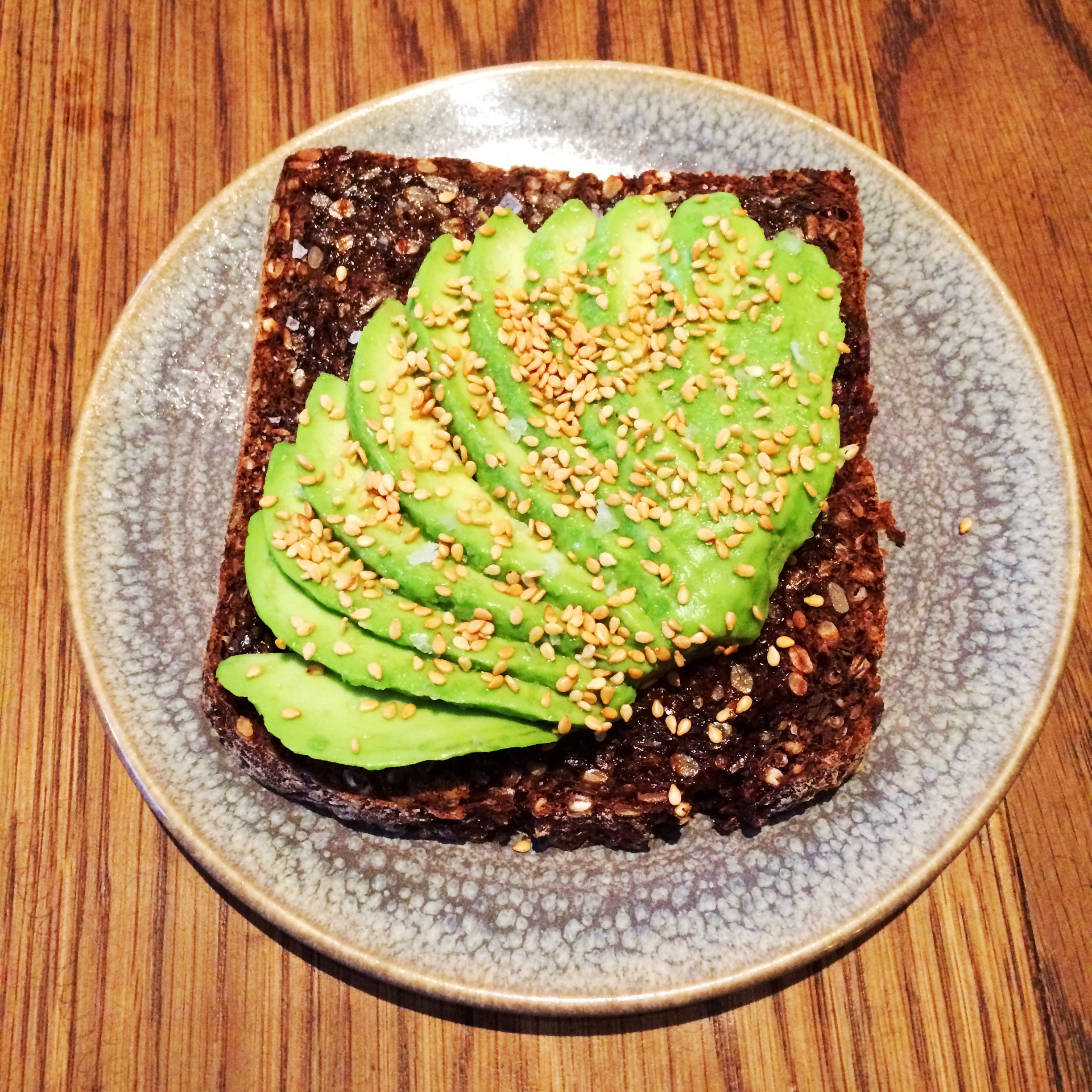 Avocado toast in Stockholm, Sweden